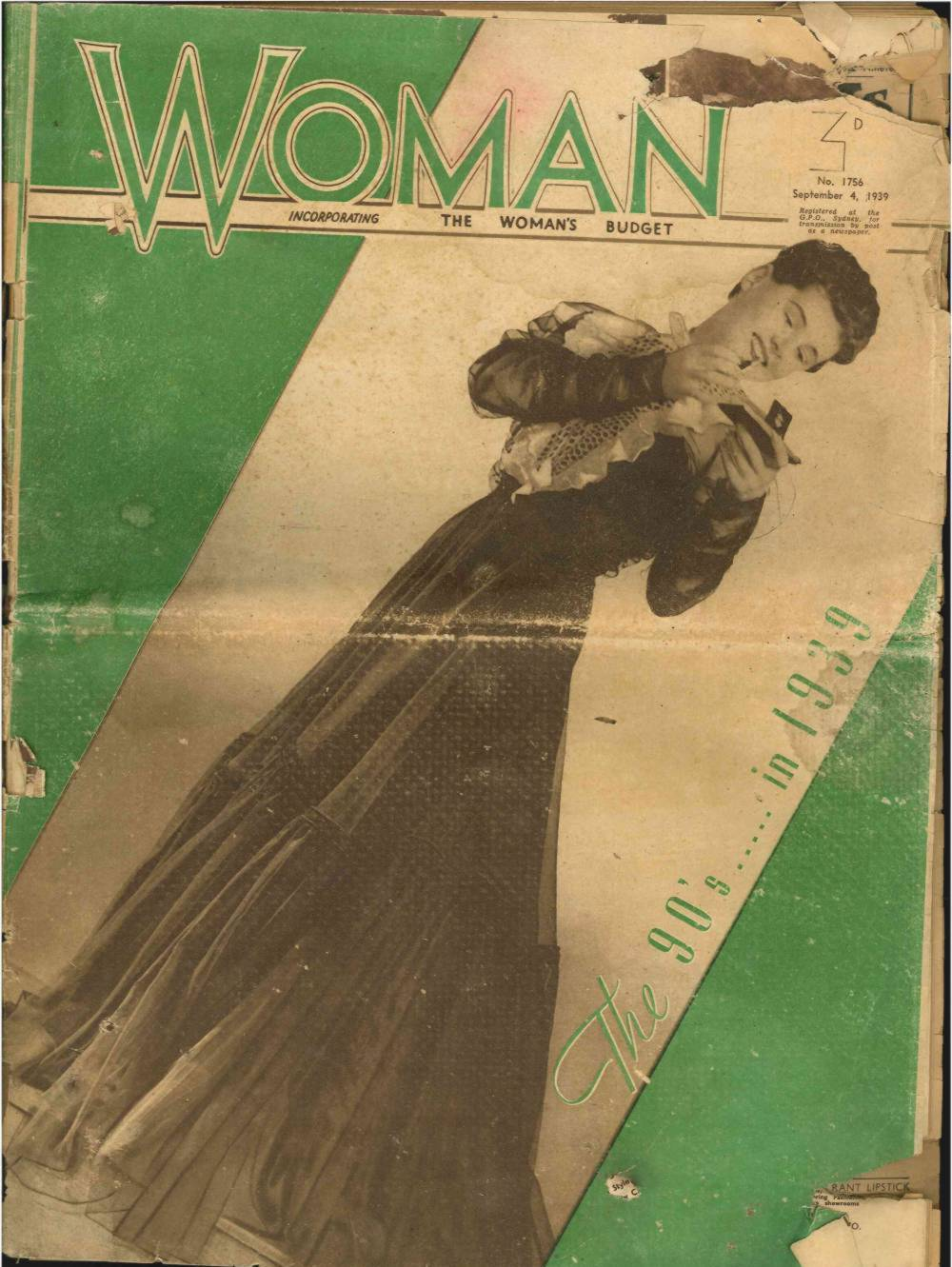 Sample front cover of Woman